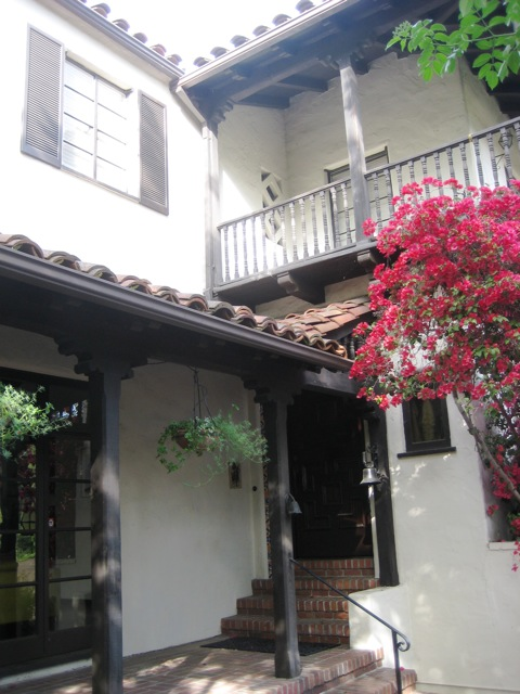 Loggia, built for Thomas Hayes, Oakland, CA, by Edwin Lewis Snyder